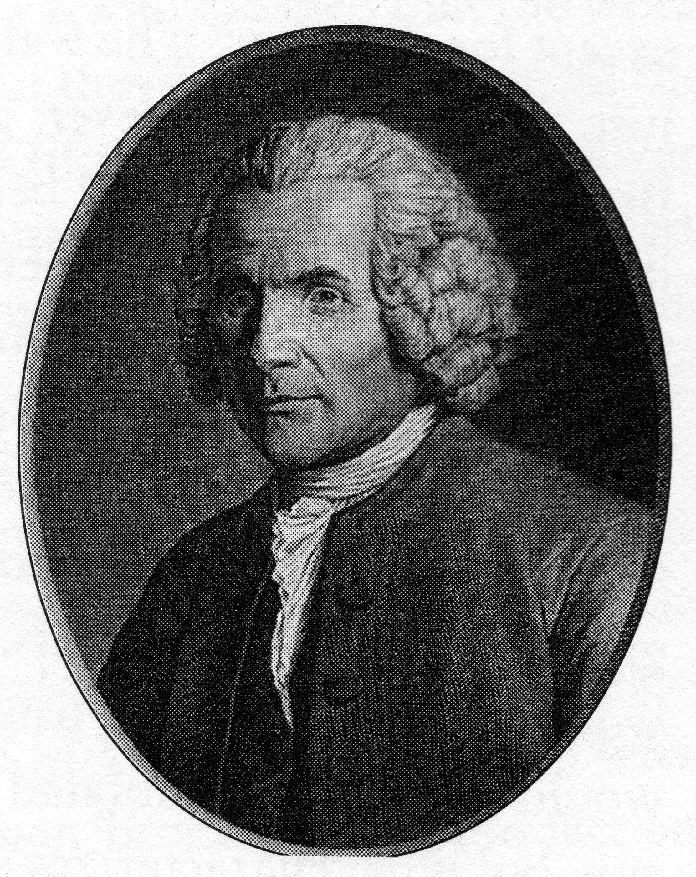 A portrait engraved for a posthumous edition of Rousseau's works, after an original by Angelique Briceau.